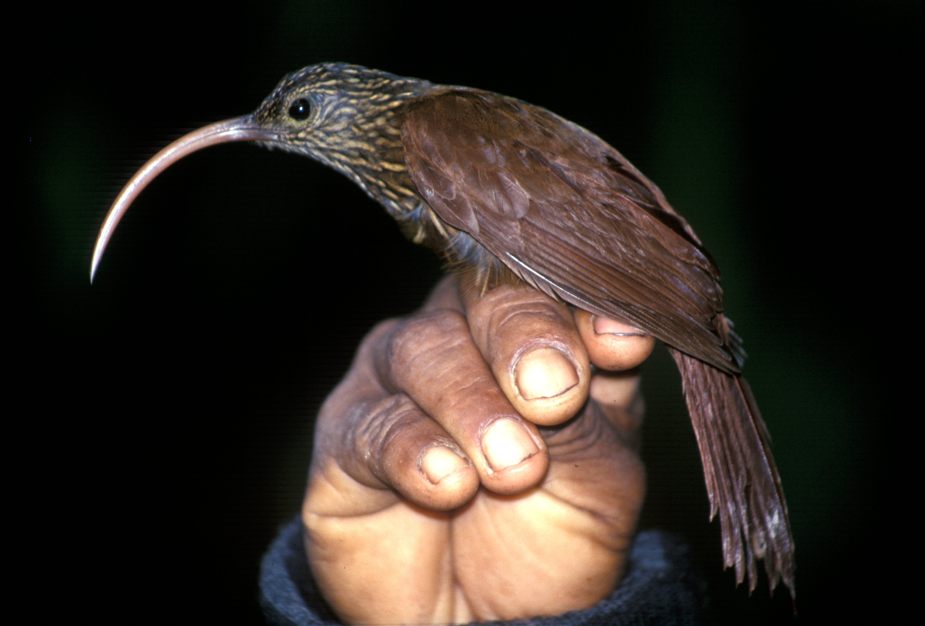 Brown-billed Scythebill (Campylorhamphus pusillus) from Ecuador